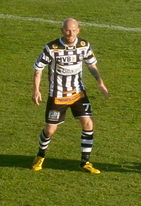 Max Mölder, Landskrona BoIS.